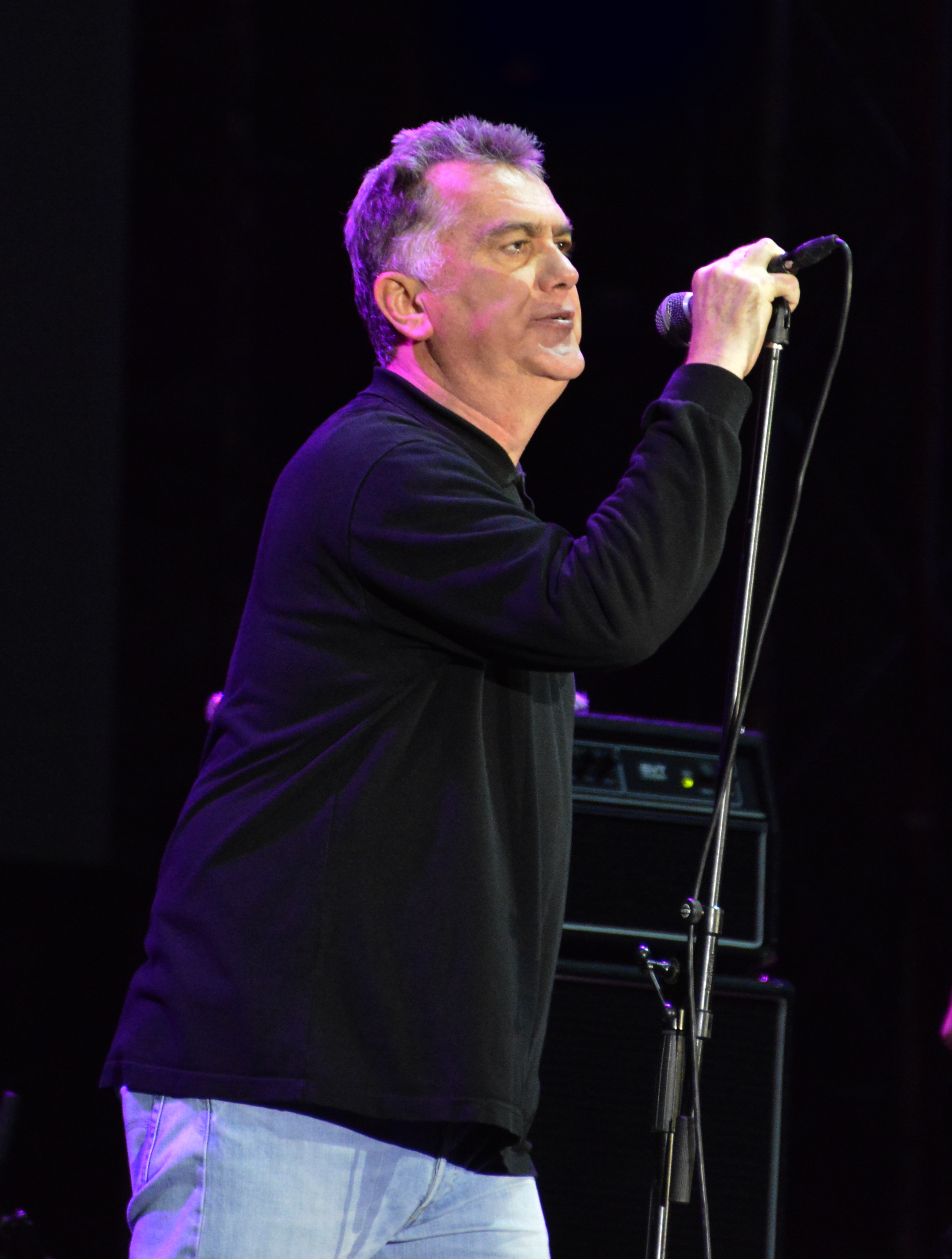 Zoran Kostić - Cane during the Partibrejkers rock concert in Budva (Montenegro), January 1, 2019